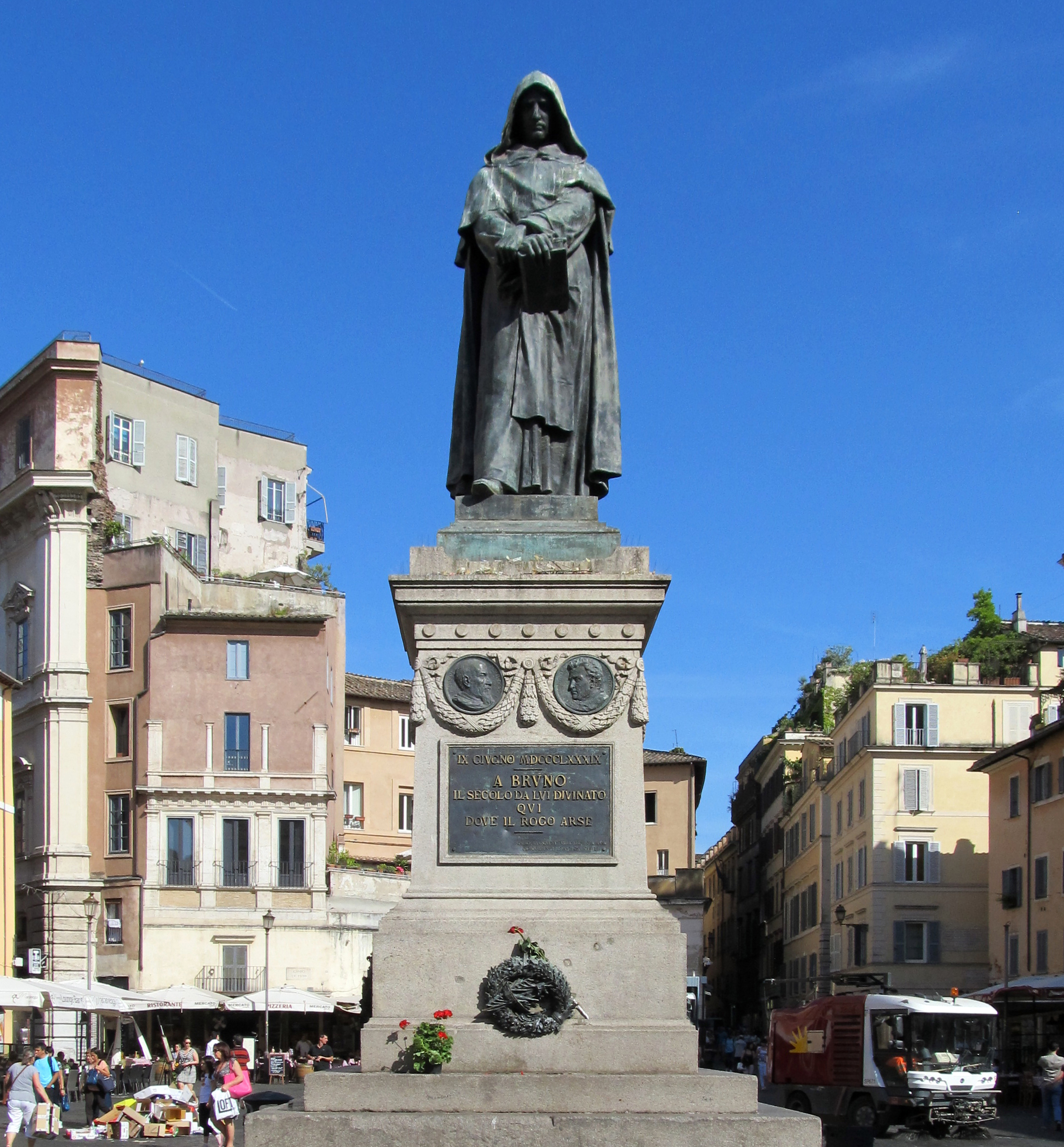 This statue is the centrepiece of Campo de' Fiori (Field of Flowers), a major public square south of Piazza Navona. Giordano Bruno was a Dominican friar who was convicted of heresy and burned at the stake in this place. He had rejected key Catholic doctrines, believed in a heliocentric solar system and correctly proposed that the Sun was a star moving through space. He was later viewed as a martyr for science and free thought.